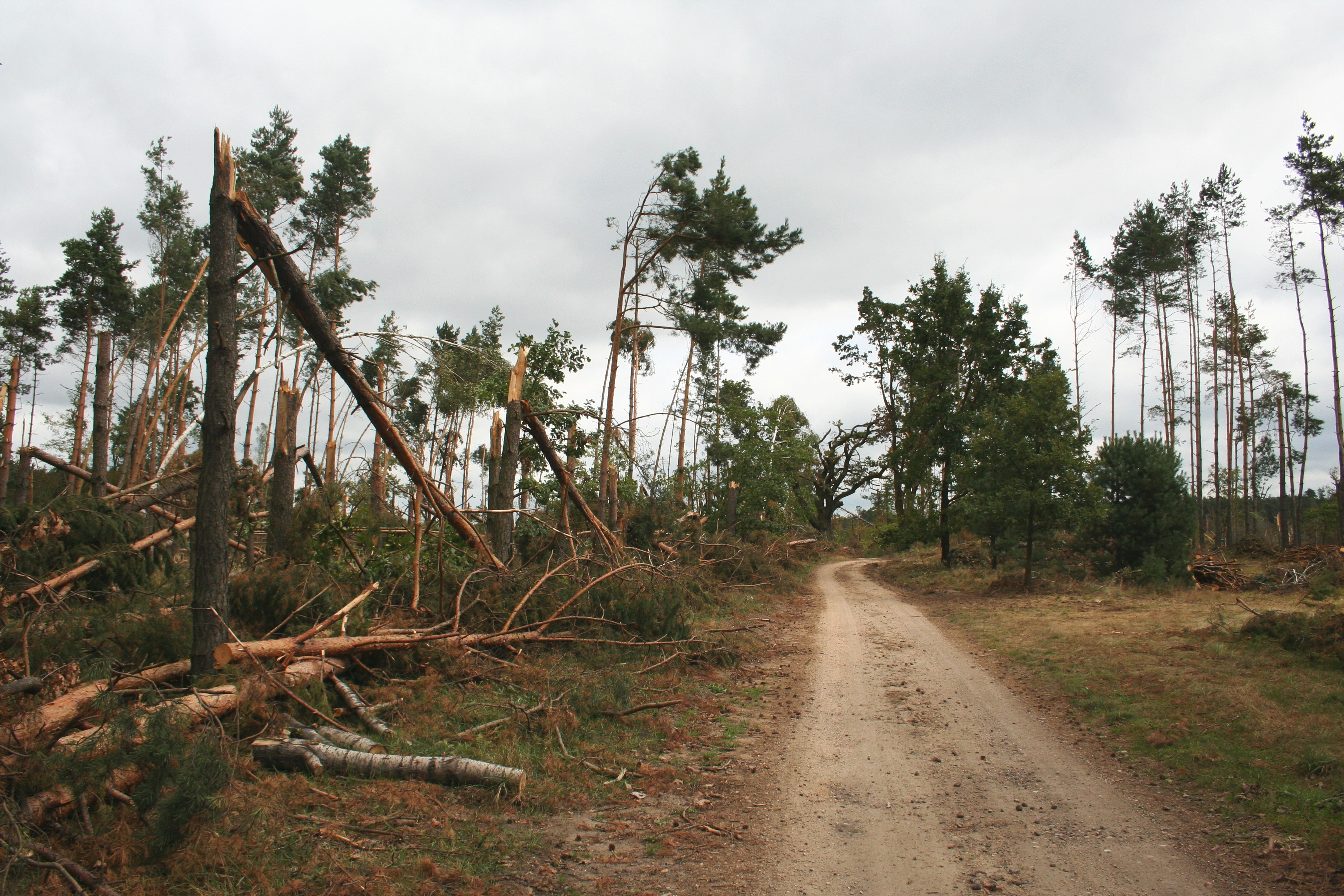 Forest near Hadra, after tornado, Poland